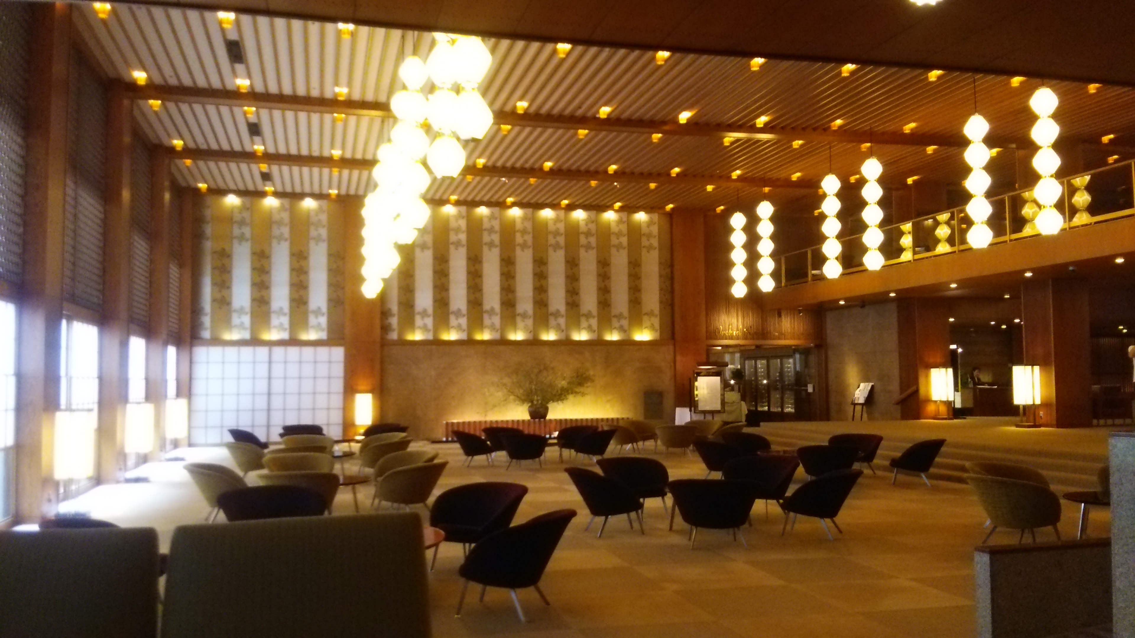 It is dismantled september 2015.